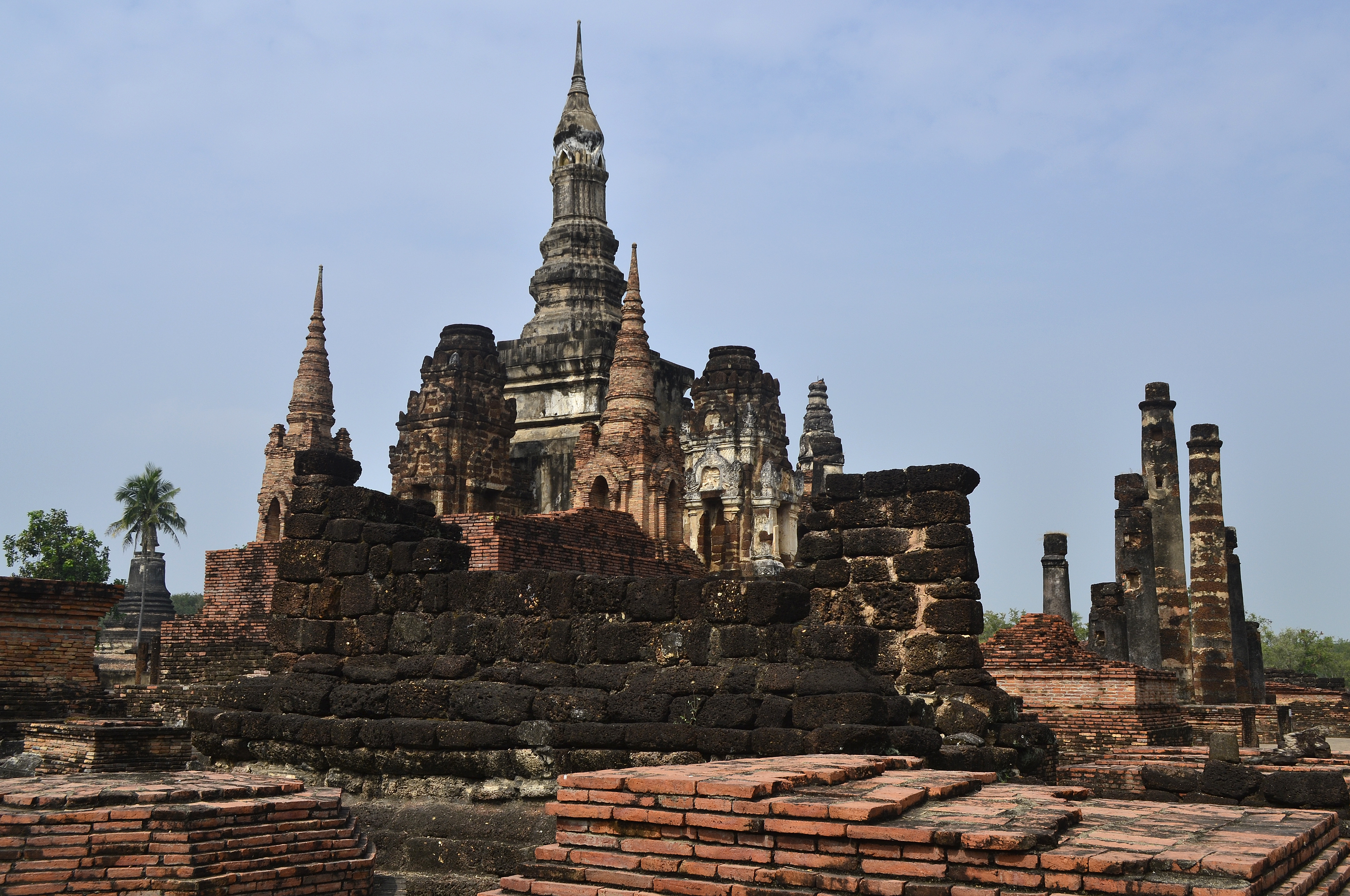 Wat Mahathat (Sukhothai Historical Park)